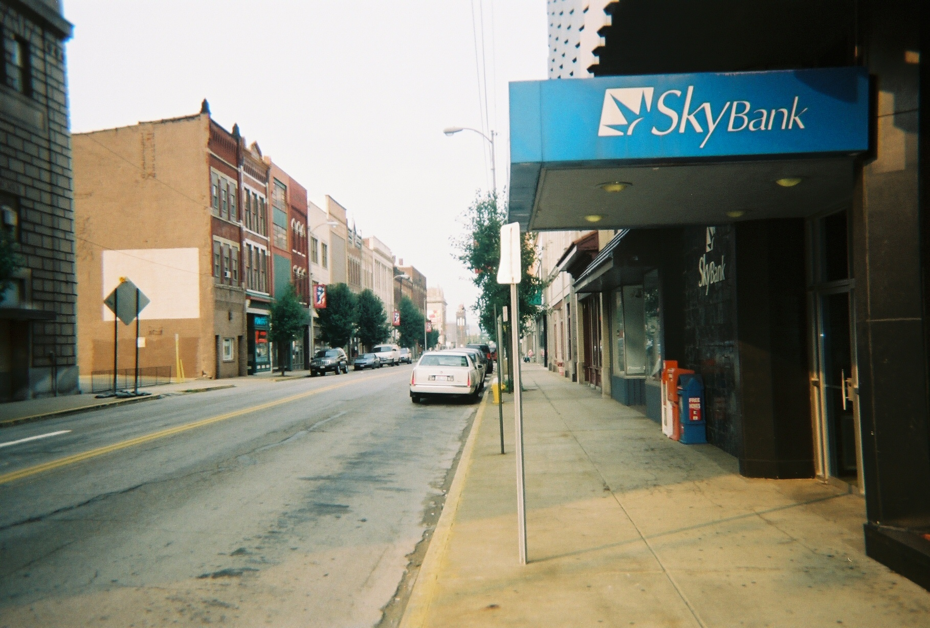 This photo shows 4th Street in Steubenville, Ohio. Much of the downtown has deteriorated since the population began to shrink in the 1970s and beyond. Today, community leaders are trying to make the downtown vibrant again by taking advantage of the high number of people who work downtown each day. Parking is free along the streets, contrary to the policies of most cities.